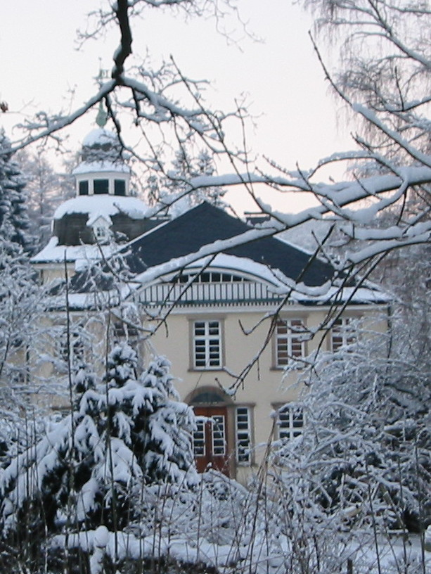 Platehof located in Lüdenscheid, Germany